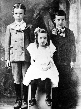 Huey Long (left) with sister Lucille and brother Earl